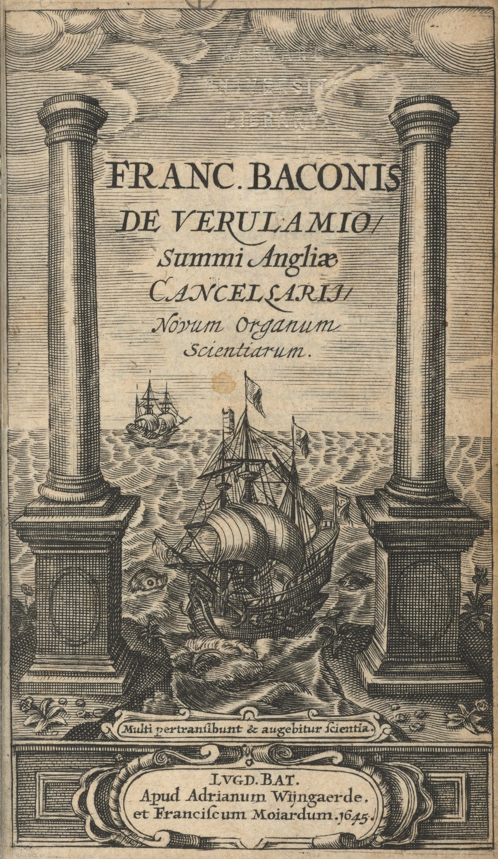 Title page for Novum organum scientiarum, 1645, by Francis Bacon (1561-1626). *EC.B1328.620ib, Houghton Library, Harvard University: Francis Bacon of Verulam / High Chancellor of England / New Organon (Beneath the galleon) “Many will travel and knowledge will be increased.” Leiden, Holland: at the shop of Wyngaerden and Moiardum, 1645.